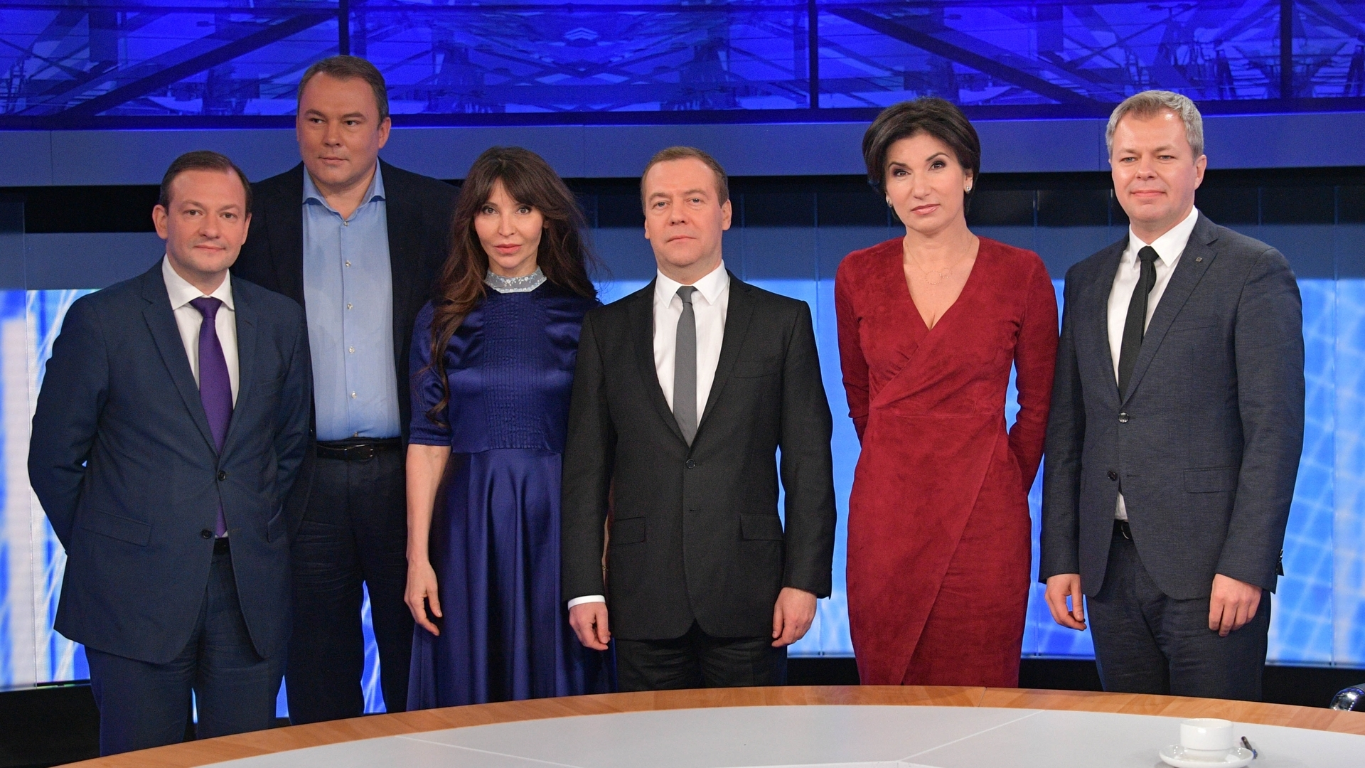 Dmitry Medvedev's interview with Russian journalists. From left to right: Sergey Brilyov (Russia-1), Pyotr Tolstoy (Channel One), Irita Minina (Tomskoe Vremya), Dmitry Medvedev, Irada Zeynalova (NTV) and Ilya Doronov (RBK).